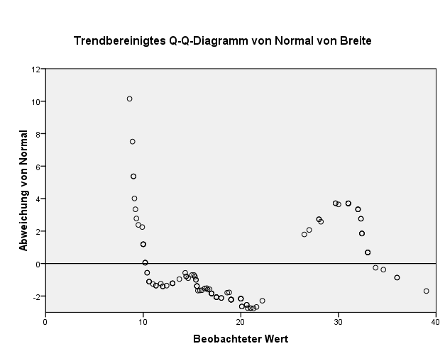 Detrended Q-Q-Plot of the width of warships; comparison with a normal distribution